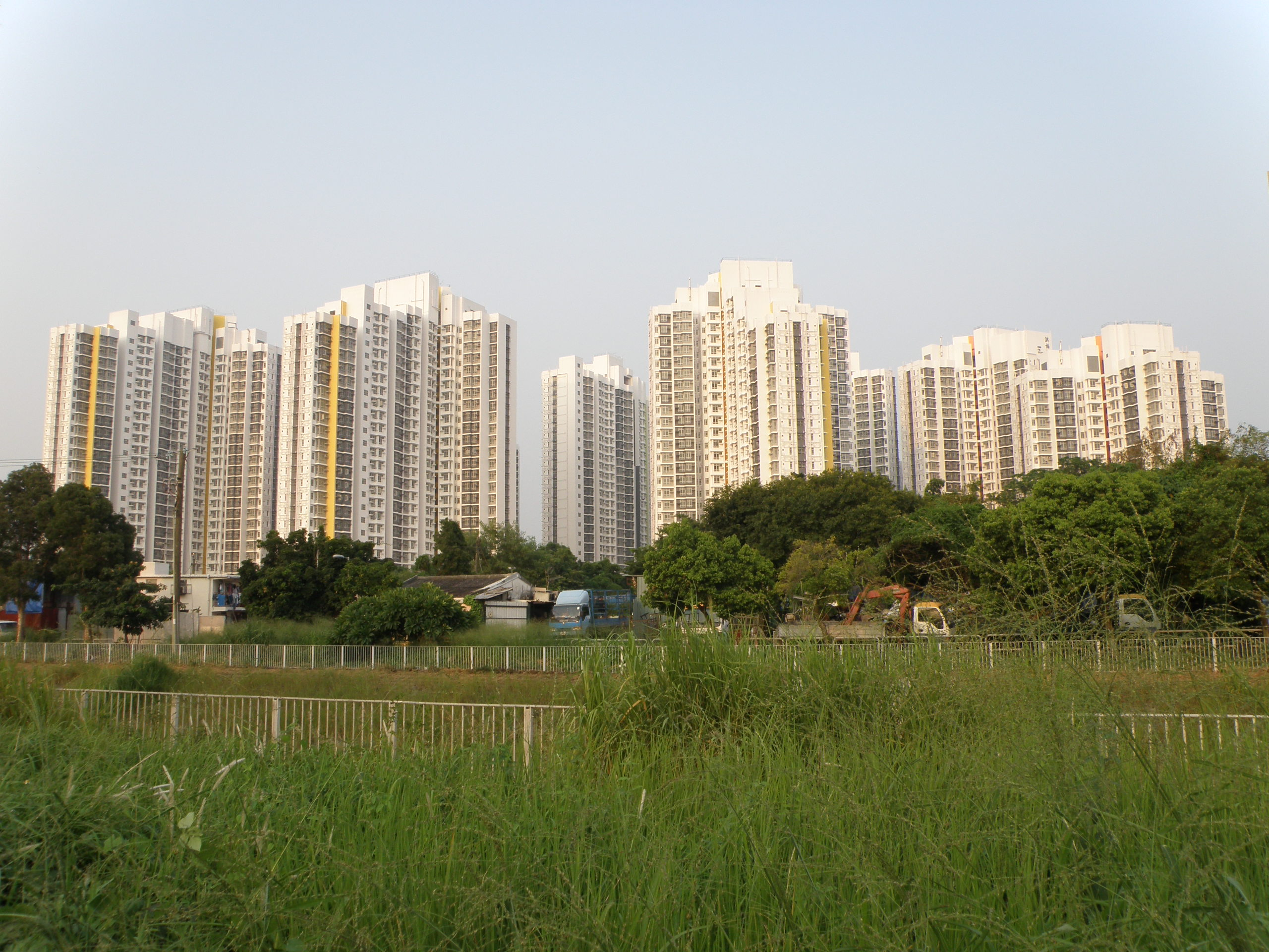 Hung Fuk Estate in Hung Shui Kiu, Hong Kong.